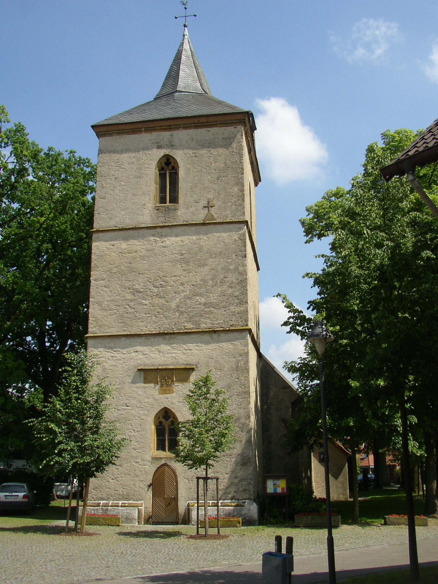 Protestant church of the village of Hörste (Halle)